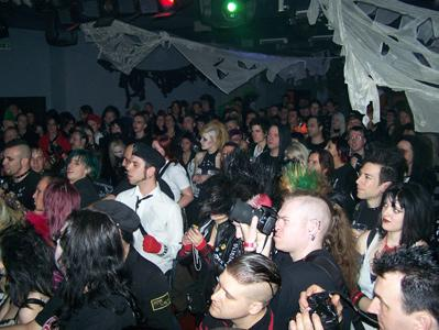 Crowd shot from the drop dead festival taken by me